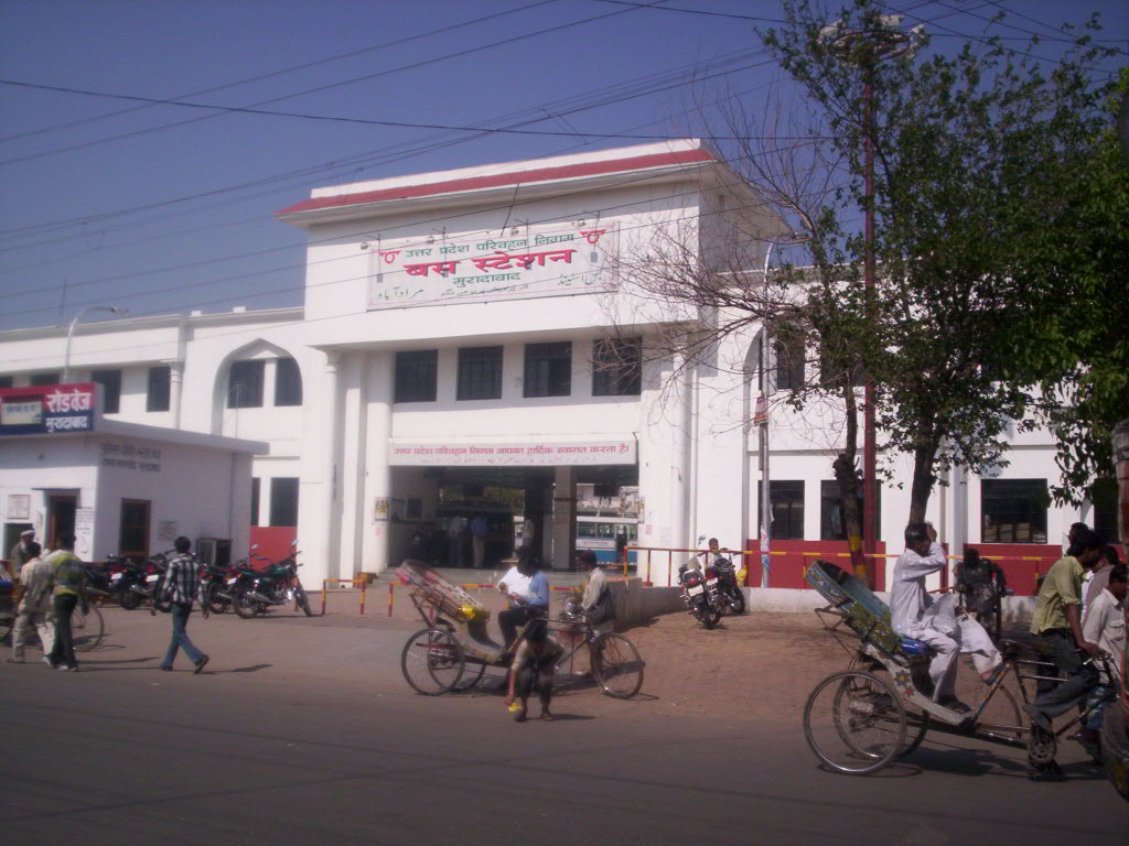 Pictures of Moradabad